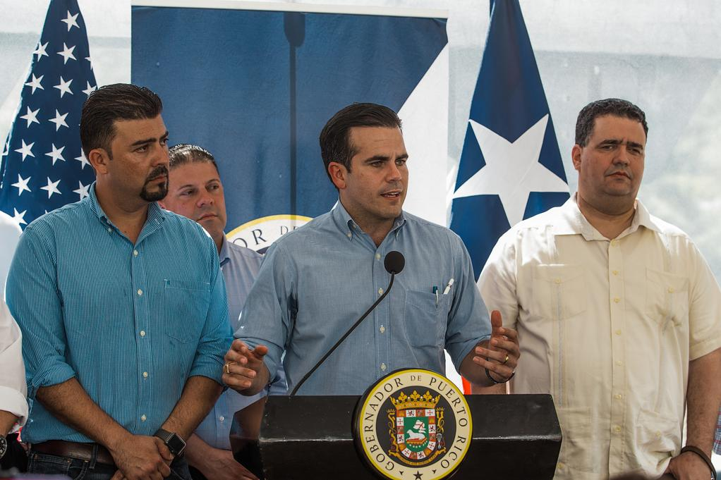 Utuado, Puerto Rico. March 13, 2018 - The Governor of Puerto Rico, Ricardo Rosselló addresses the media and survivors of Utuado, as part of the opening ceremony of the new bridge at the Río Abajo Community. The governor is accompanied by Ernesto Irizarry, Mayor of Utuado (left) and Carlos Contreras (right) Secretary of the Puerto Rico Department of Transportation. FEMA/Eduardo Martínez